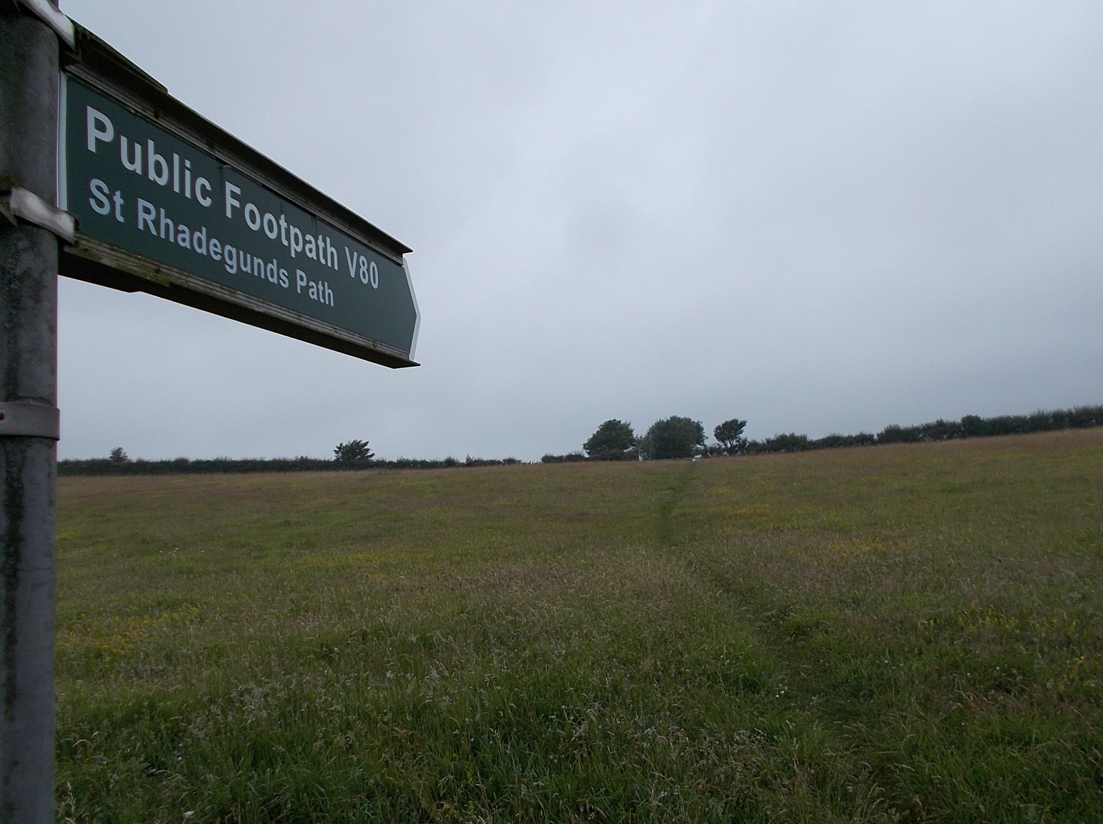 St Rhadegunds Path signpost, St Lawrence, Isle of Wight, UK